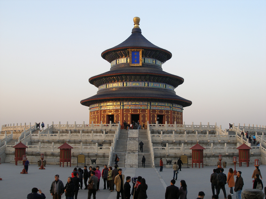 Temple of Heaven in Beijing